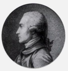 Portrait of William Winne Ryland